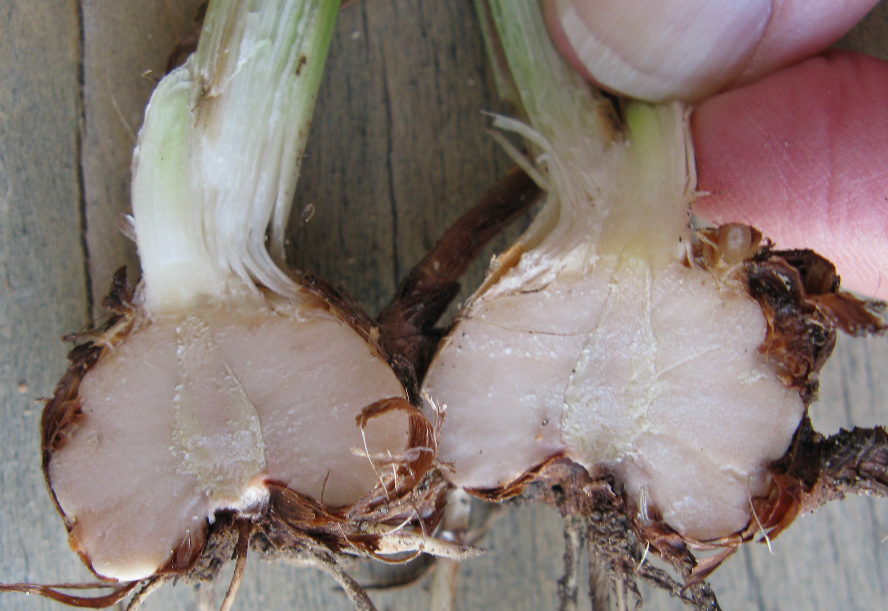 Corm of Crocosmia, showing tunic, cortex with storage tissue, and central medulla